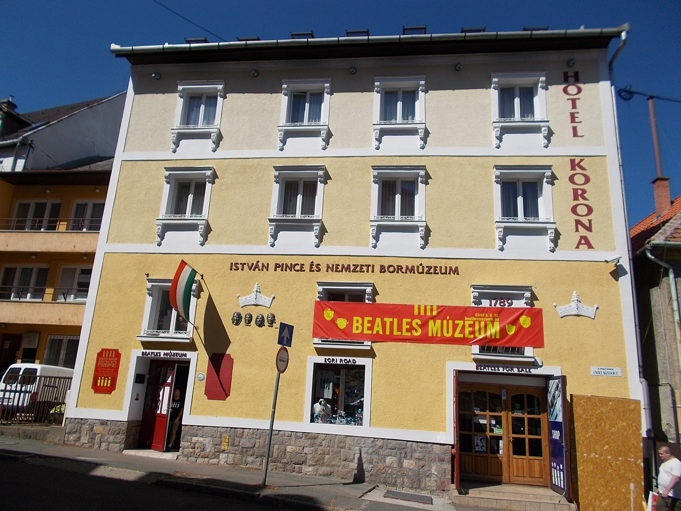 Beatles Museum. - 30 Csíki Street, Eger, Heves County, Hungary.